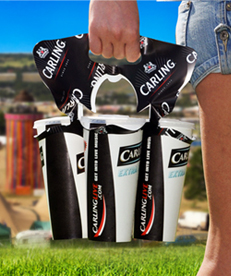 Flexicarry™ is the only flexible multi-cup carrier in the world, which can conveniently and safely carry and share 1, 2, 3 or 4 drinks with one-hand without spilling.